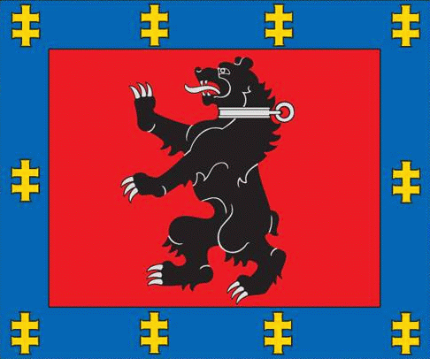 Flag of Telšiai County, Lithuania